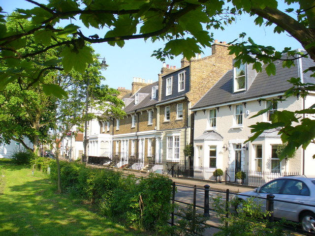 Thames Street Conservation Area expensive long riverside terrace dating from the 18th and 19th century in Sunbury. They face a grassy field named Orchard Meadow across the road (Thames Street); behind they have moorings with many steps and ornate patio gardens by the River Thames.